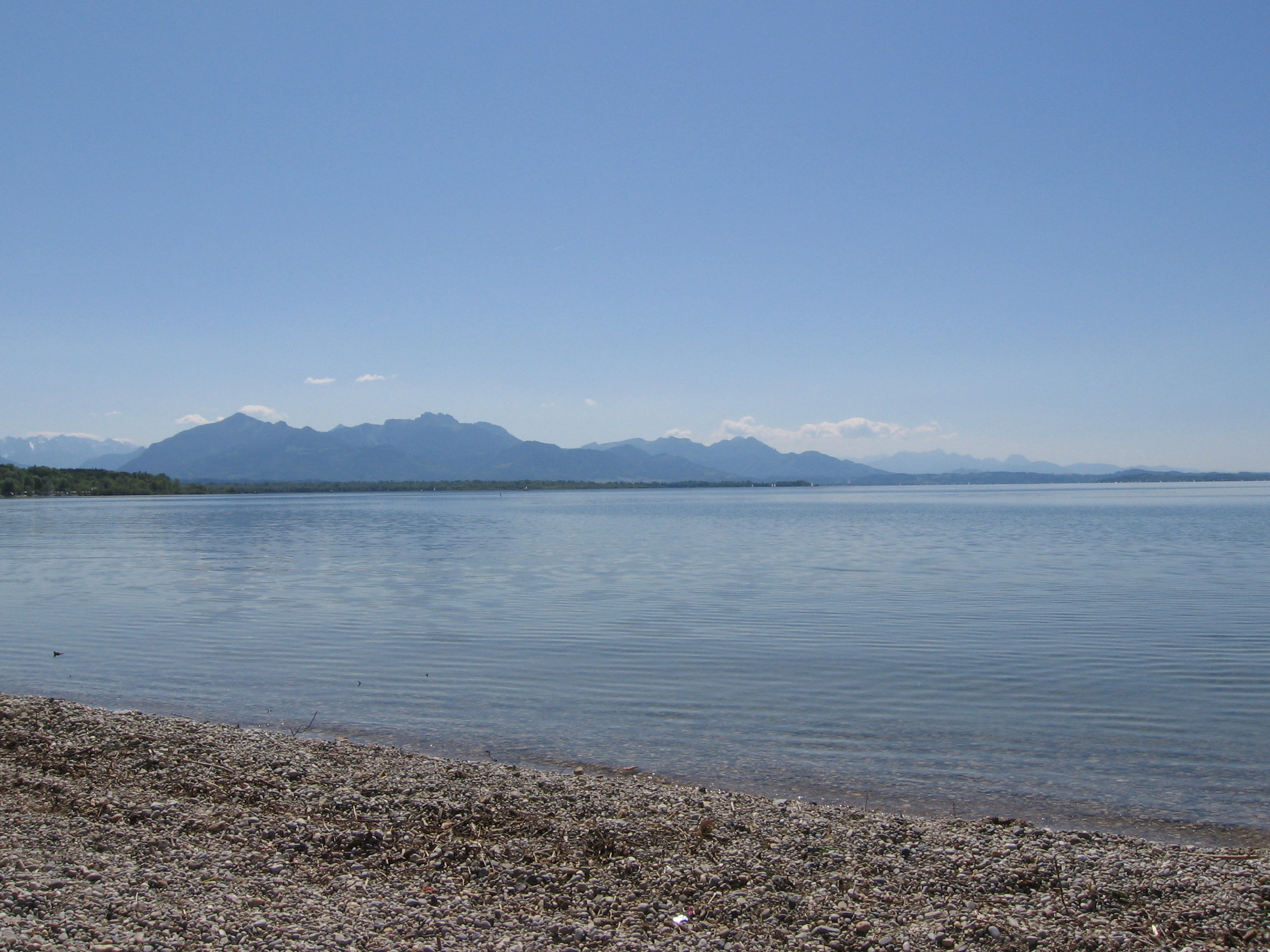 View from Chiemsee towards the Chiemgau Alps